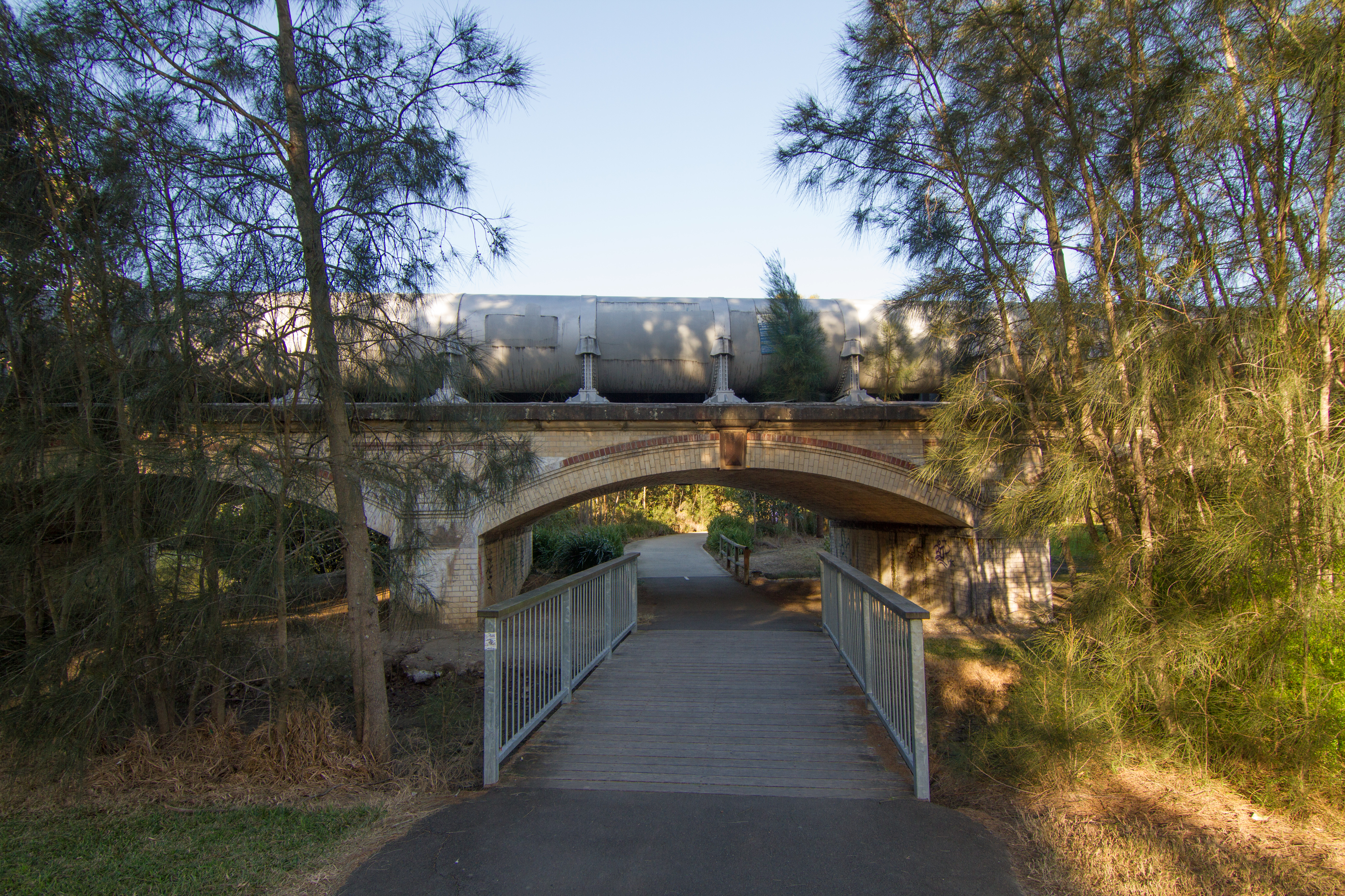 Earlwood NSW 2206, Australia